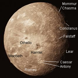 Oberon (a moon of Uranus). Voyager-2 image. All 10 surface features which have names (2016) are signed (according to maps by Tayfun Oner and list on IAU site)